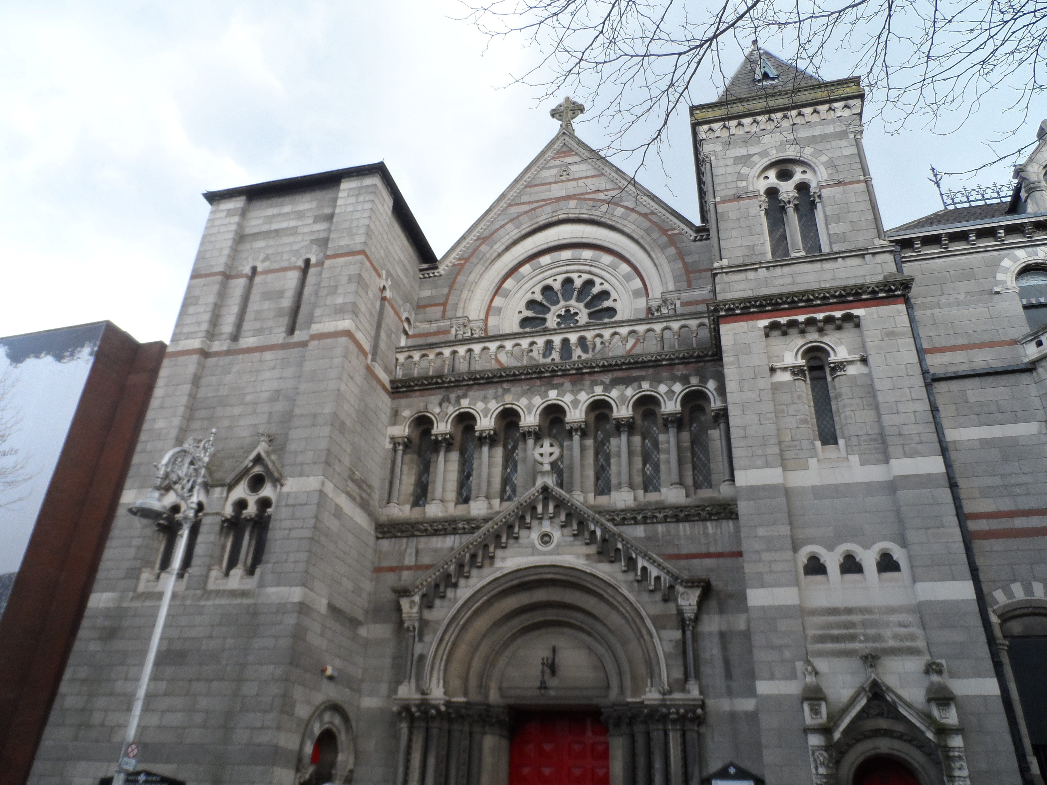 St. Ann's Church, Dawson Street